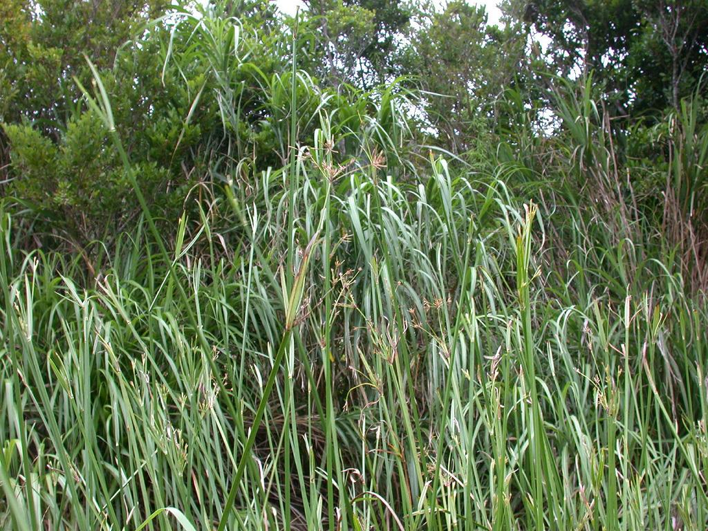 Cyperus monophyllus (Cyperaceae) Japanese name:Sititou Date;2004,08,11;Nago city, Okinawa prefecture, Japan Author;Keisotyo